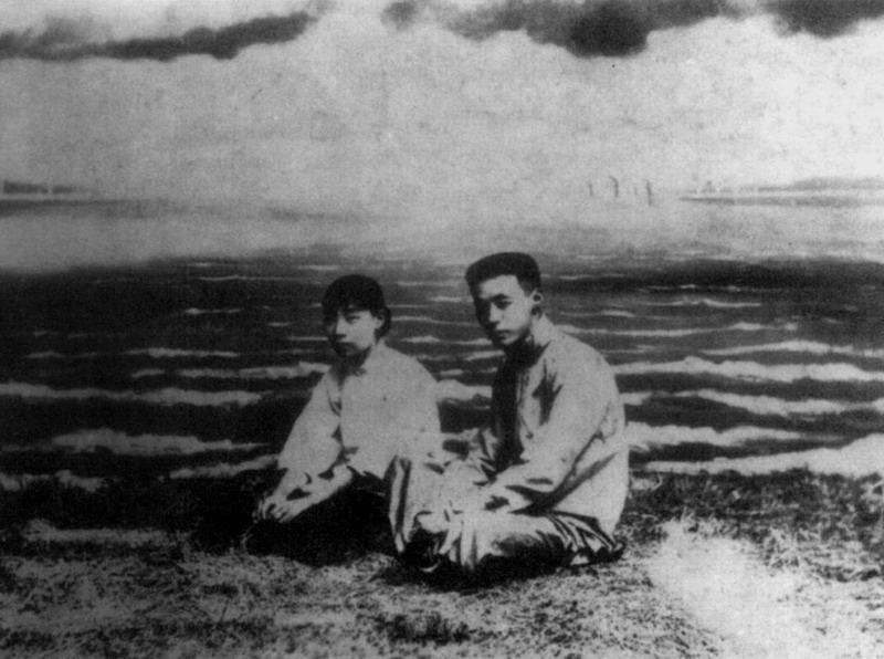 Gu Jiegang and his wife Yin Lu'an in Suzhou, 1920